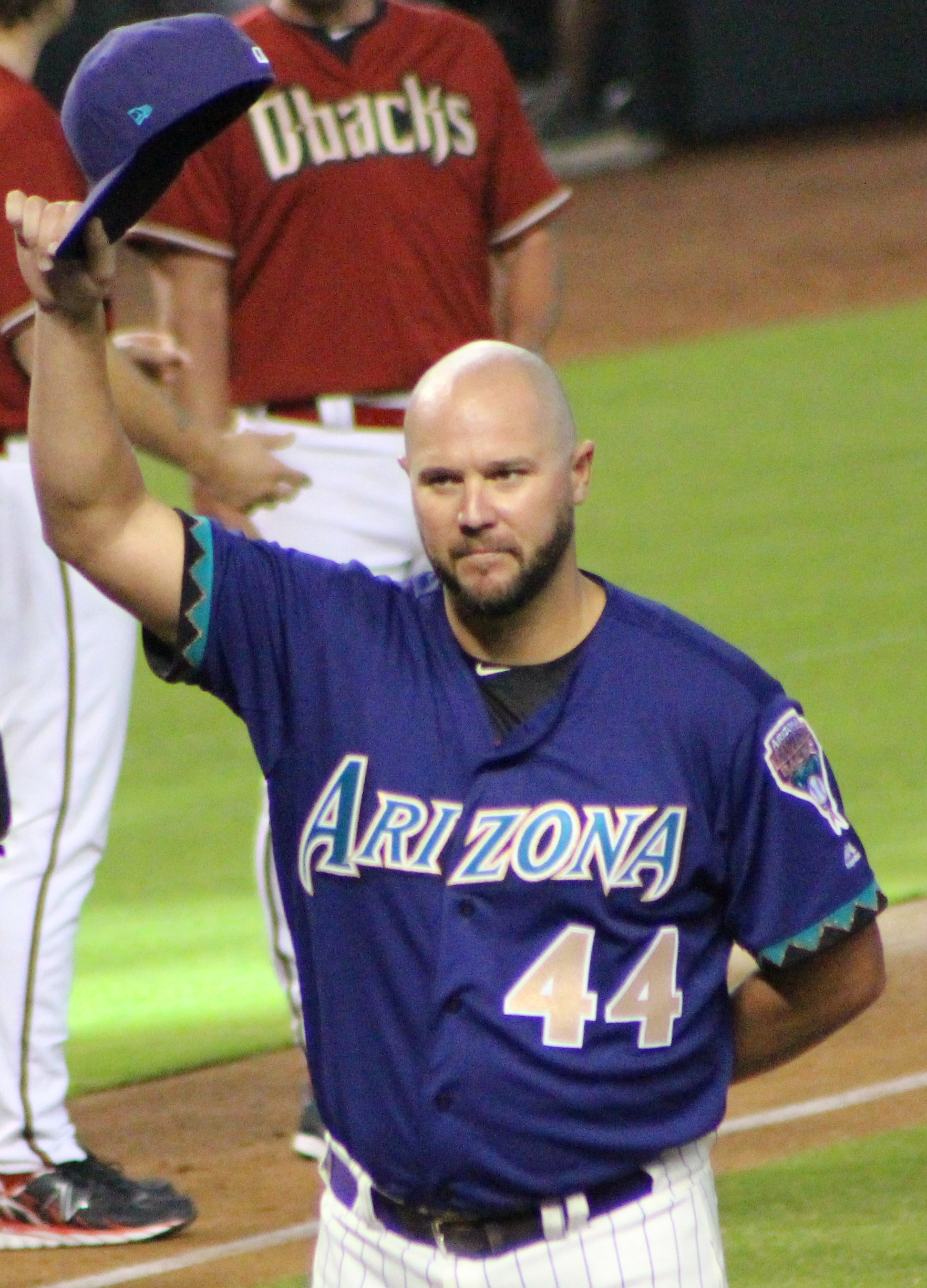 Micah Owings tips his hat to the crowd at Chase Field during player introductions prior to the 2017 Arizona Diamondbacks Alumni Game.